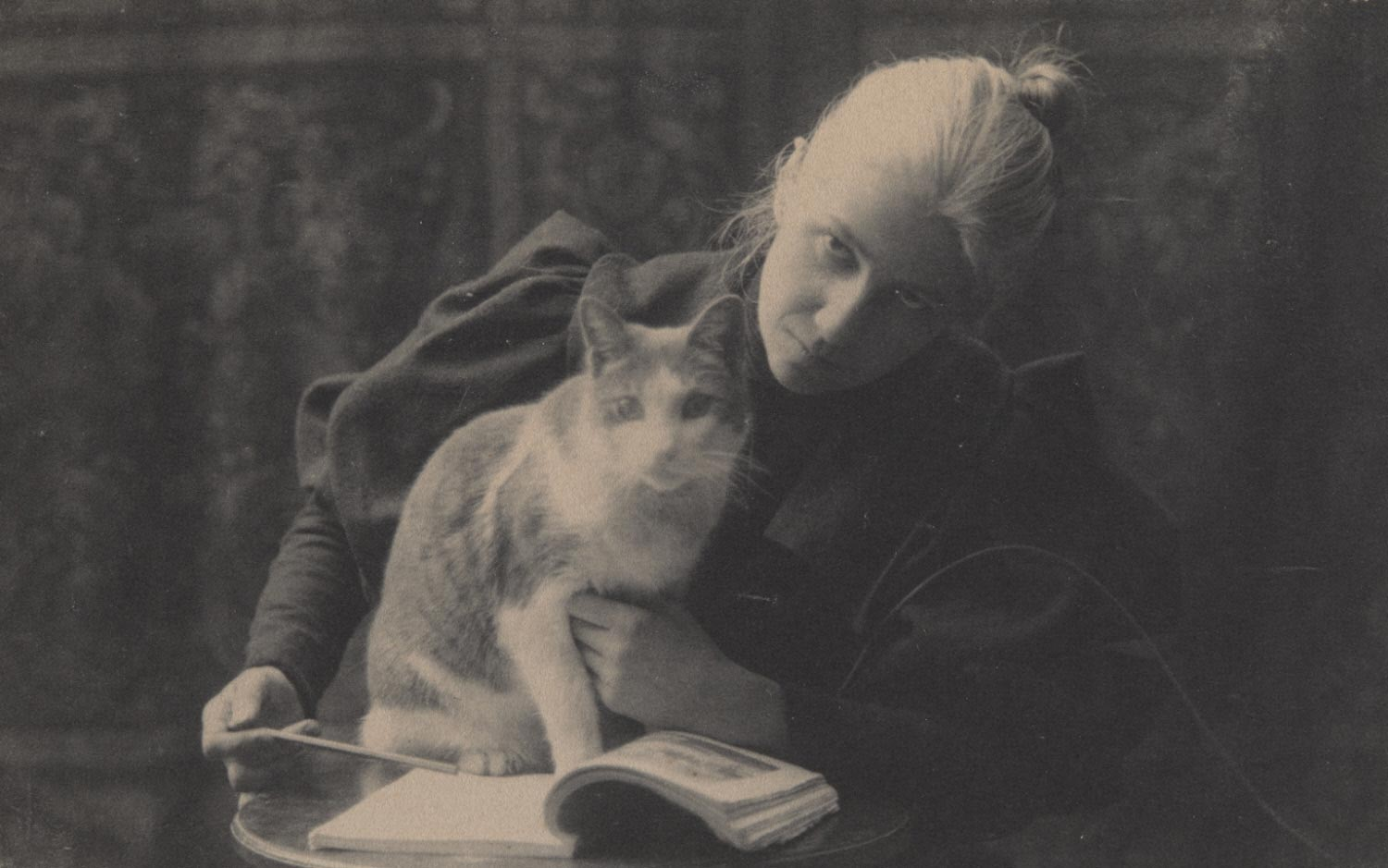 Amelia Van Buren with a Cat